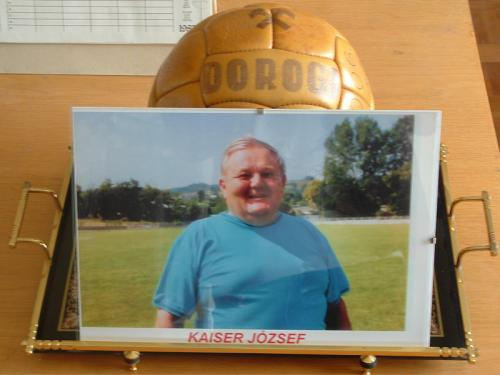 Jozsef Kaiser worked for FC Dorog at more than 34 years.